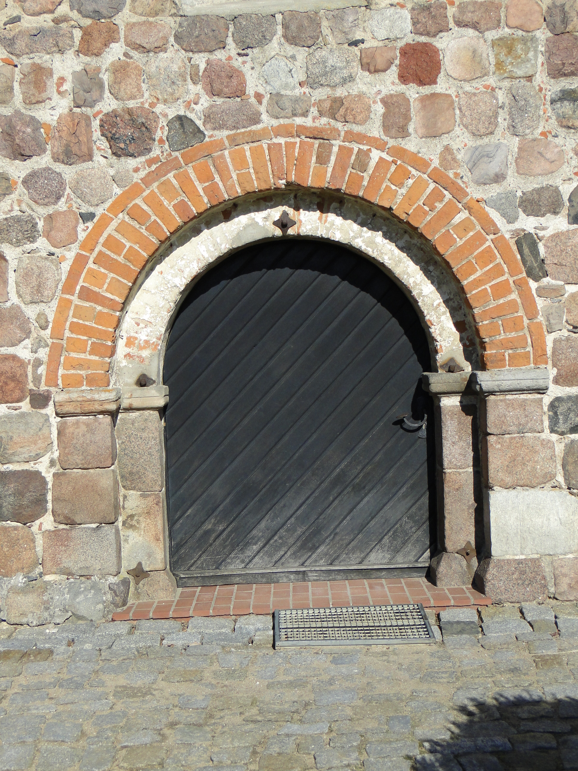 Church in Benthen, district Ludwigslust-Parchim, Mecklenburg-Vorpommern, Germany